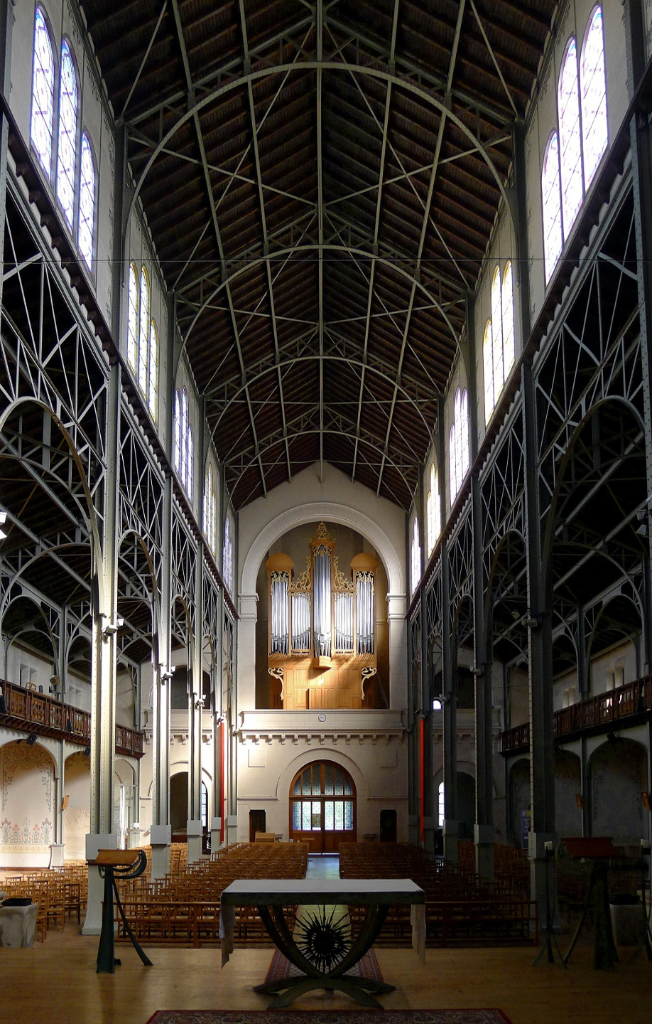 Notre-Dame-du-Travail church - Paris